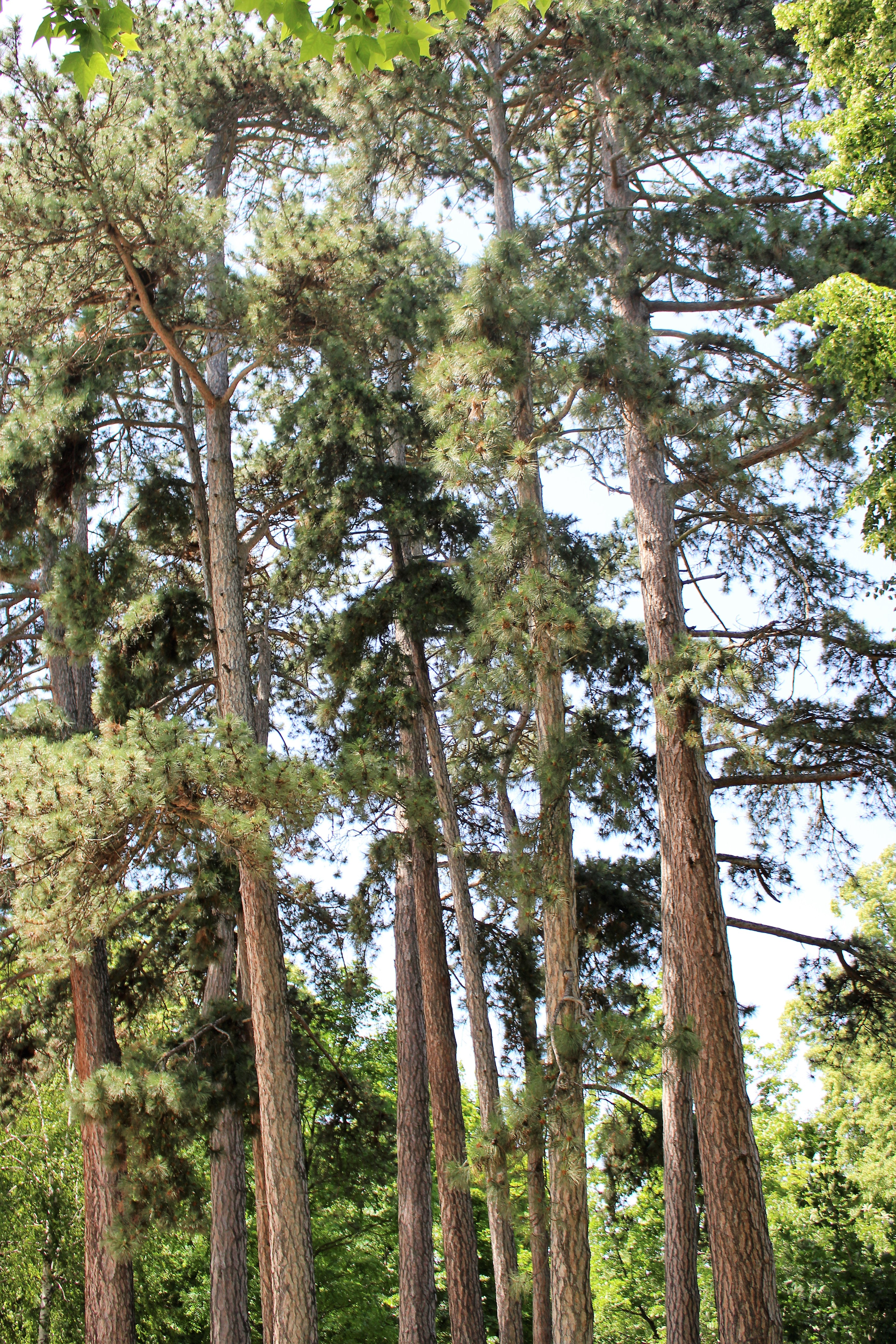 Austrian pines or black pines (Pinus nigra) in Balatonfüred, Hungary.